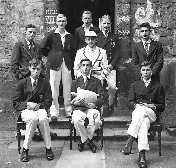 Dominic Bruce 1948